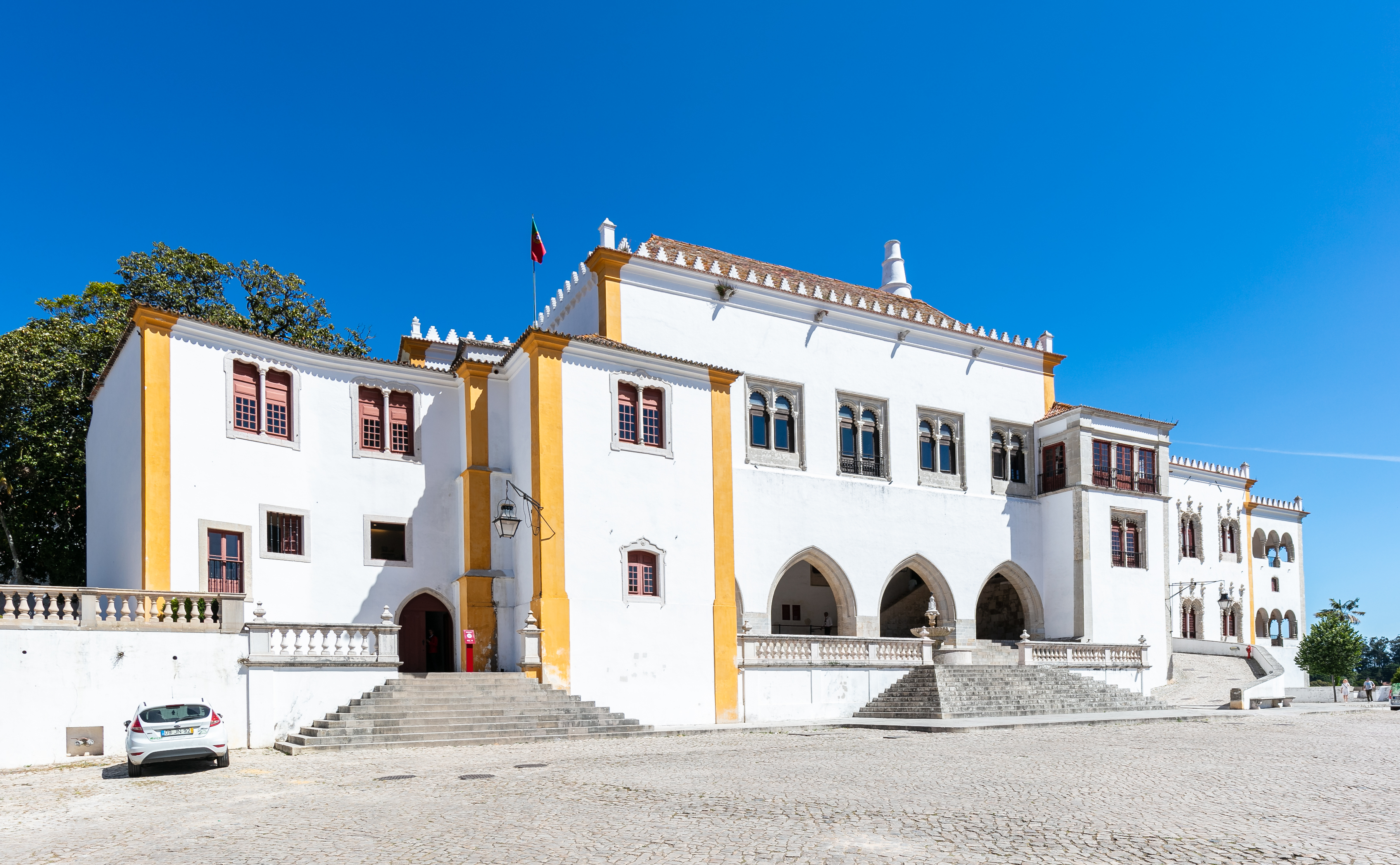 Palácio Nacional, Sintra, Portugal